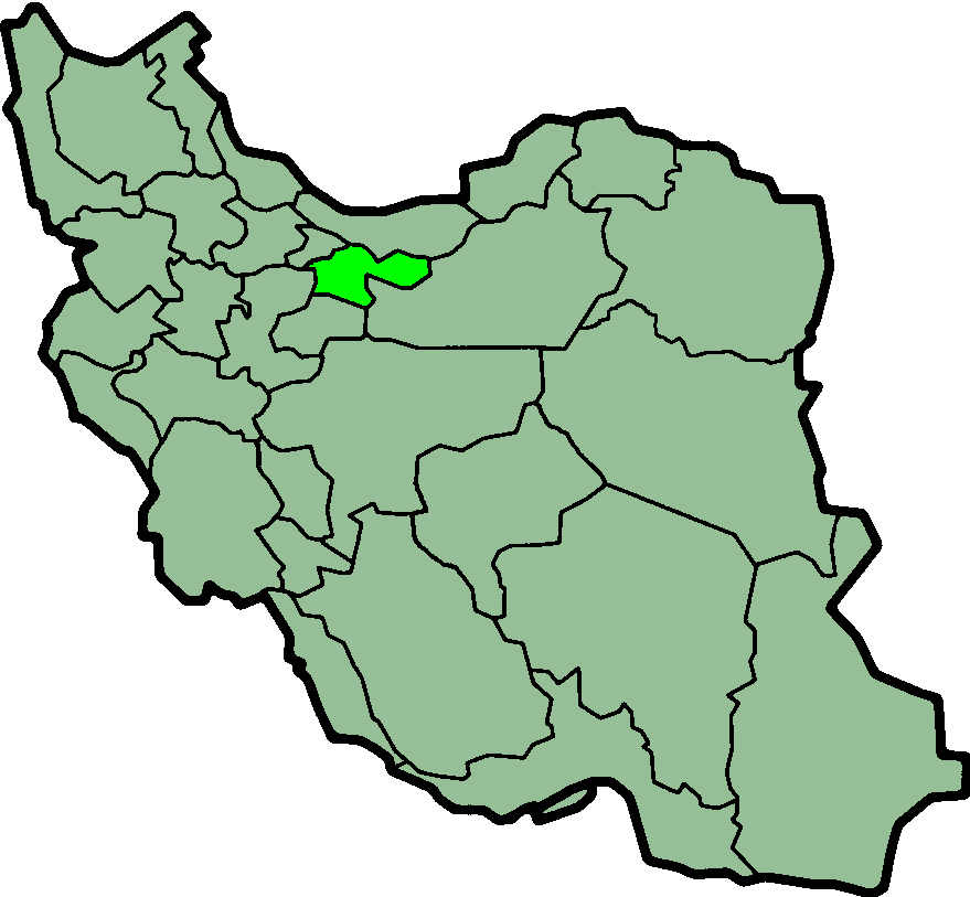 Province of Tehran, Iran